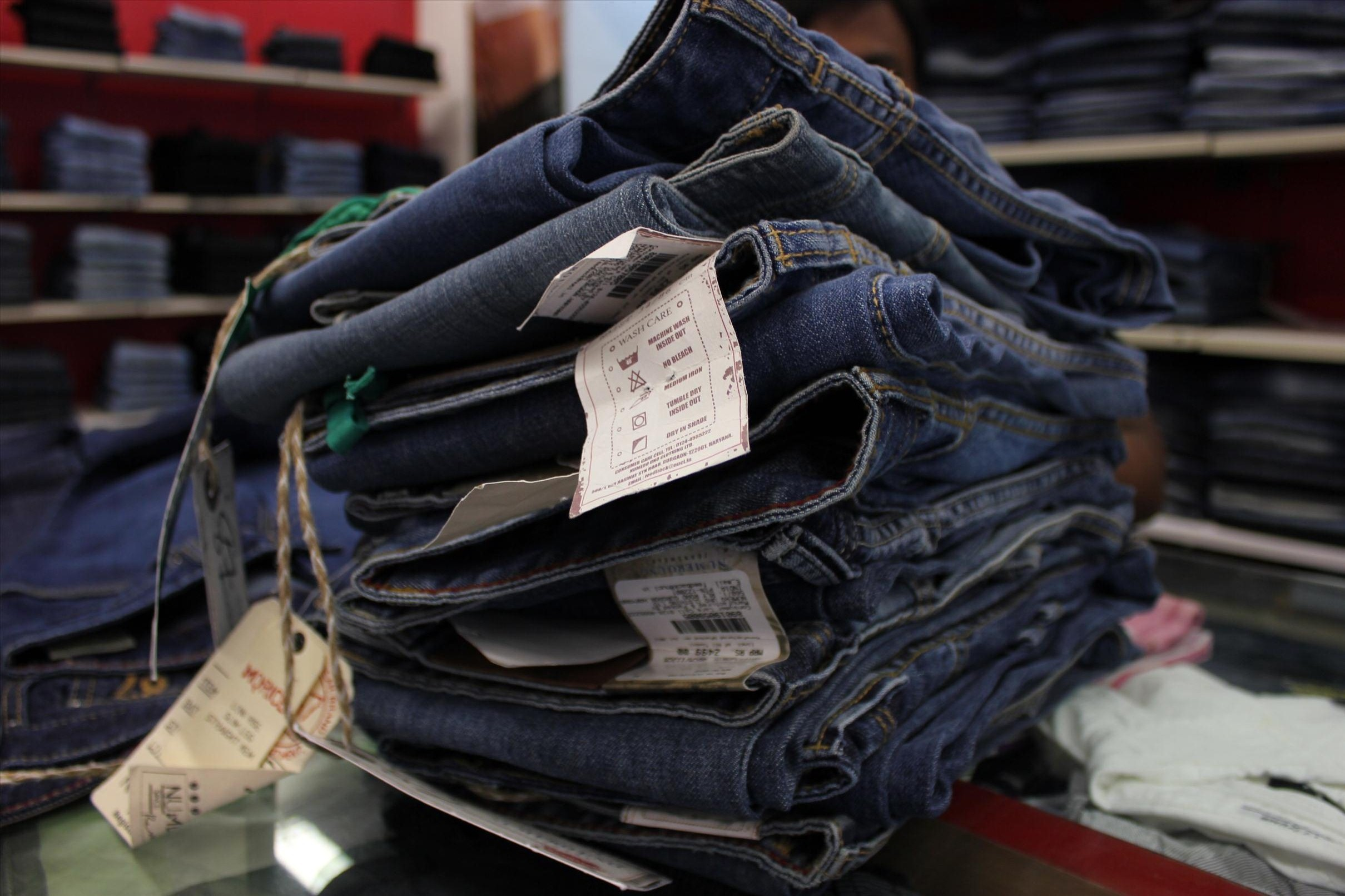 Piled up Jeans at store.